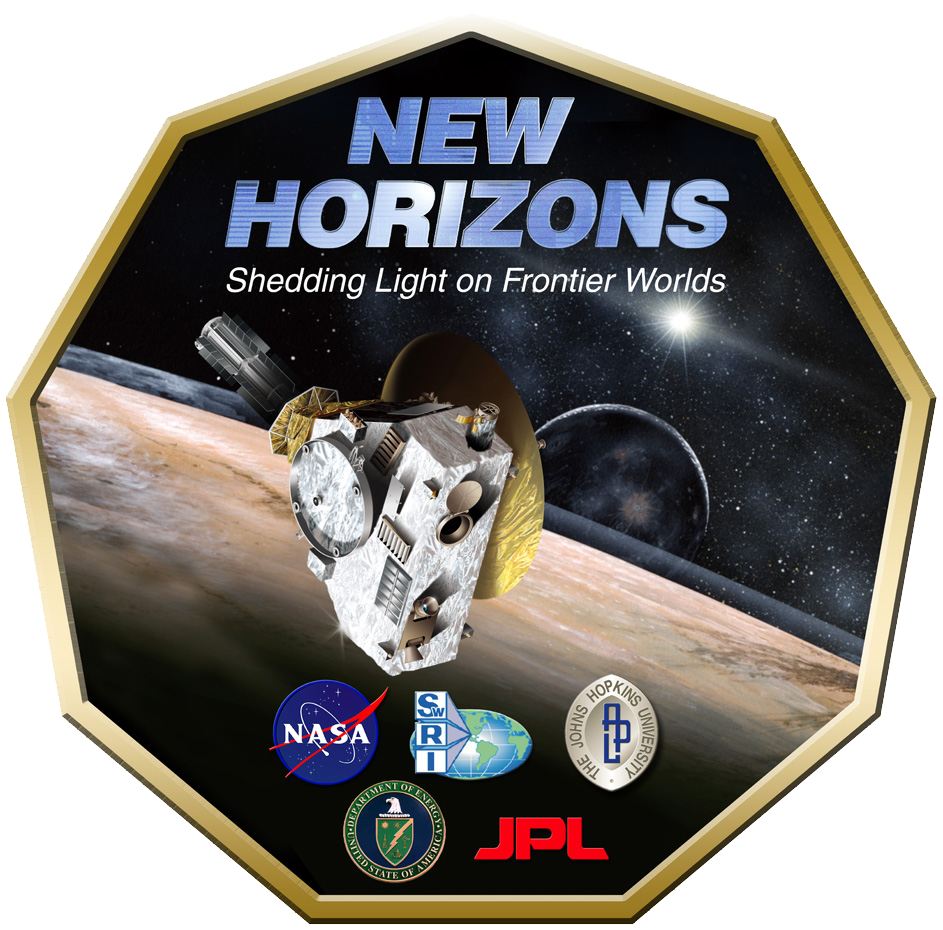 New Horizons mission logo.